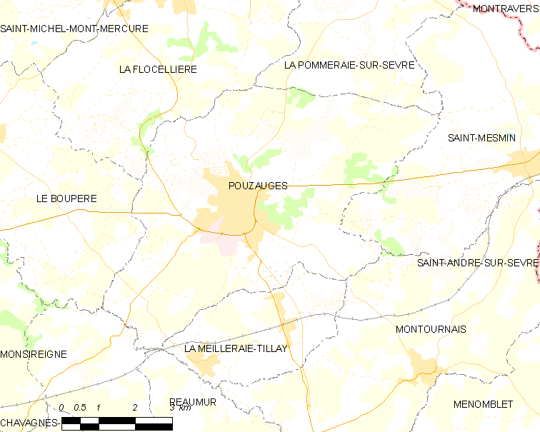 Map of French municipality Pouzauges